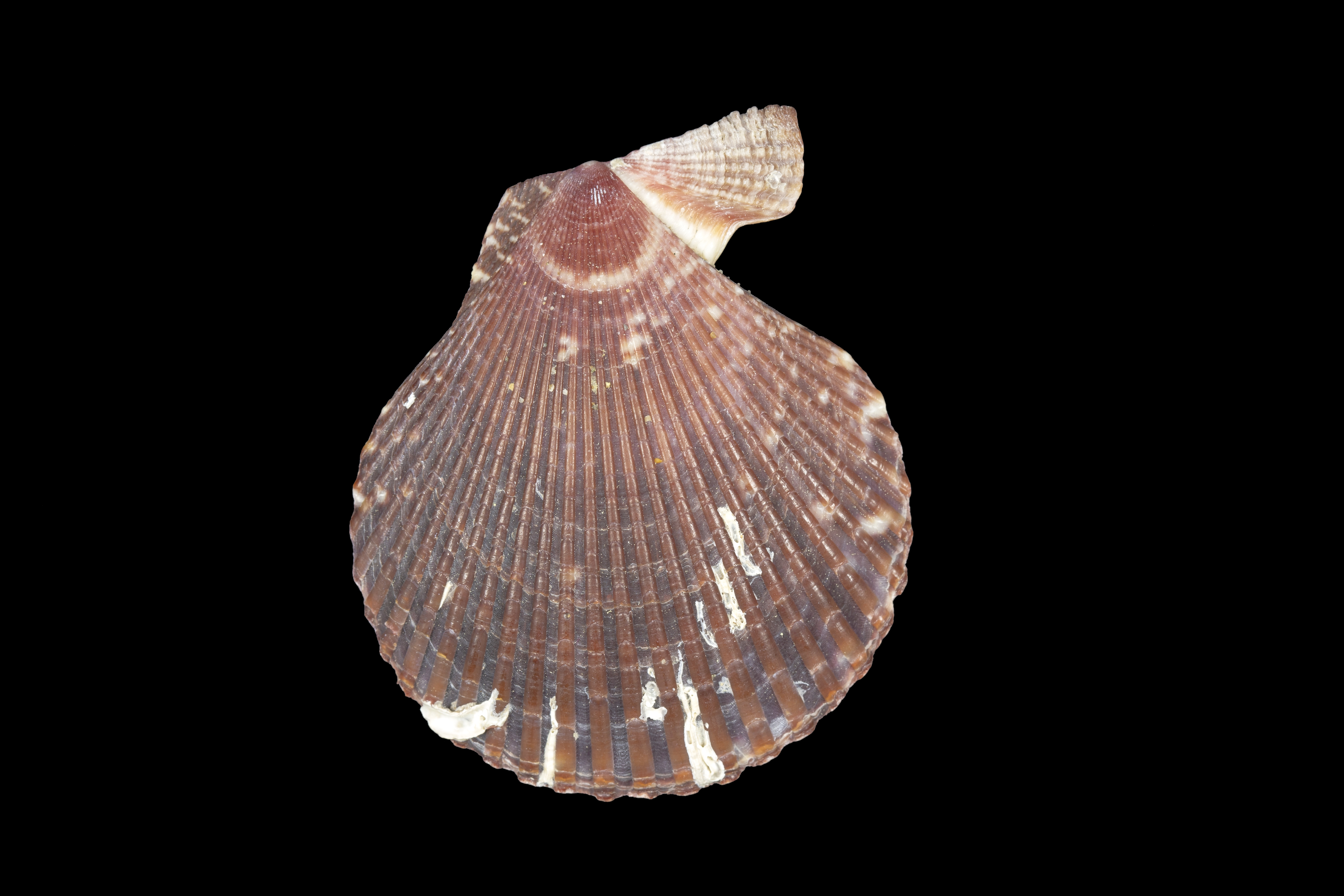 Chlamys varia, Cavallino, Italy